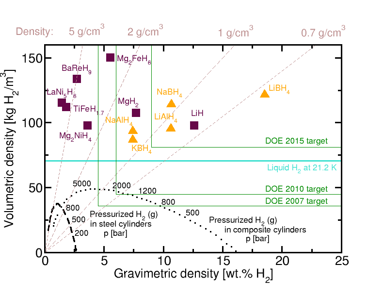 Volumetric and gravimetric hydrogen storage densities of di�fferent hydrogen storage methods. Metal hydrides are represented with squares and complex hydrides with triangles. BaReH9 has the highest know hydrogen to metal ratio (4.5), Mg2FeH6 has the highest known volumetric H2 density, LiBH4 has the highest gravimetric density. Reported values for hydrides are excluding tank weight. DOE targets are including tank weight, thus the hydrogen storage characteristics of the shown hydrides may appear too optimistic.